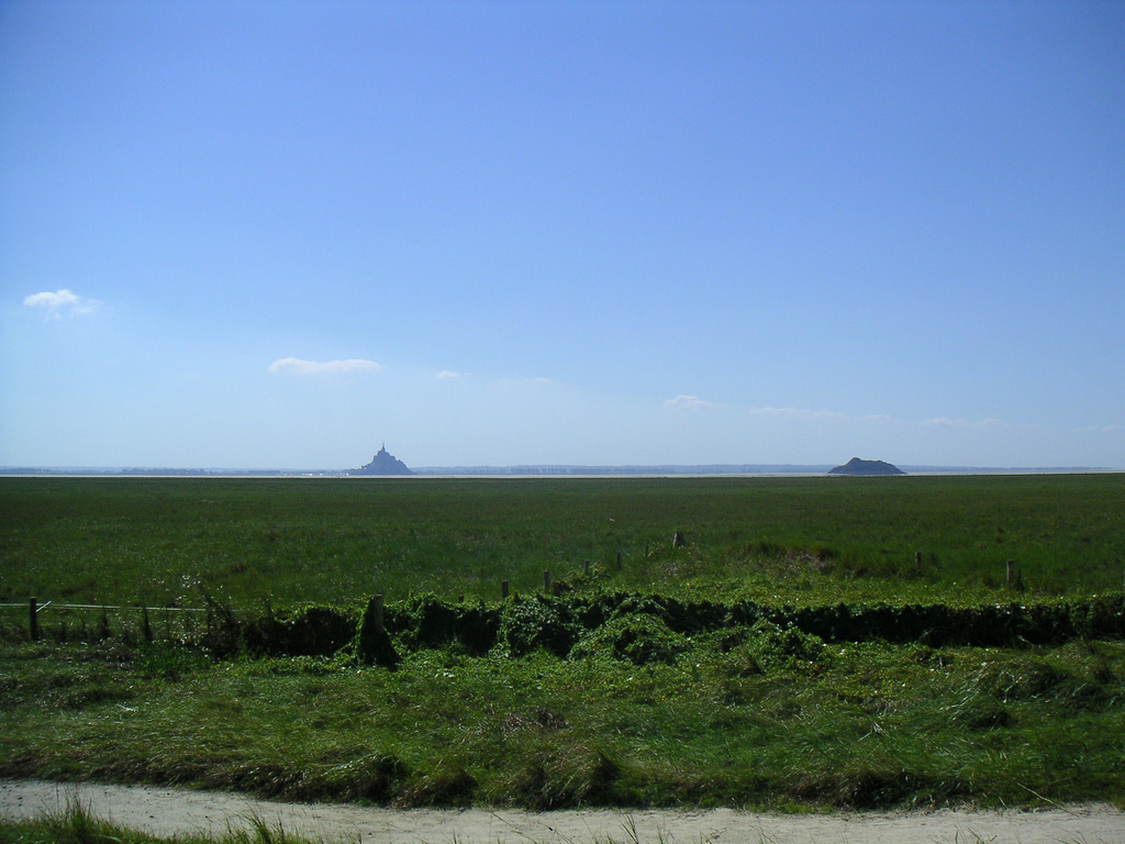 The island of Tombelaine and the Mont-St-Michel as seen from the east from the village of Genêts